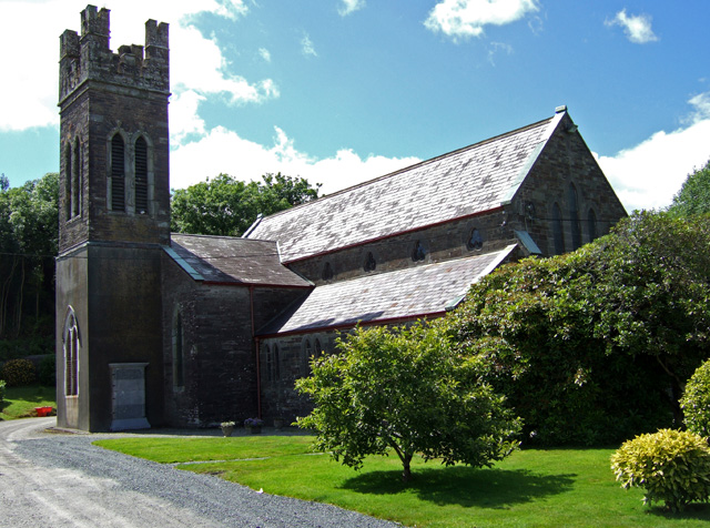 Abbeystrewery (C of I) Church Skibbereen Located just off busy Bridge Street, the church is in the early English style, and was completed in 1826. The tower was added a year later in 1827.